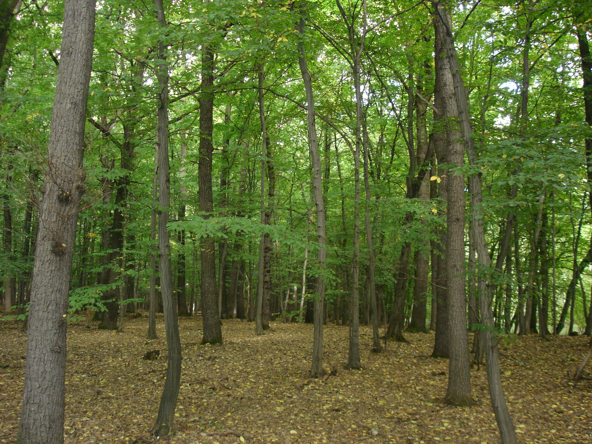 Natural reserve "Žernov", located in Pardubice District, Czech Republic. Valuable oak-hornbeam forest with surrounding ponds and wetlands.